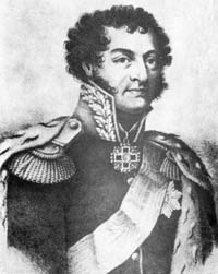 Prince David of Georgia Batonishvili